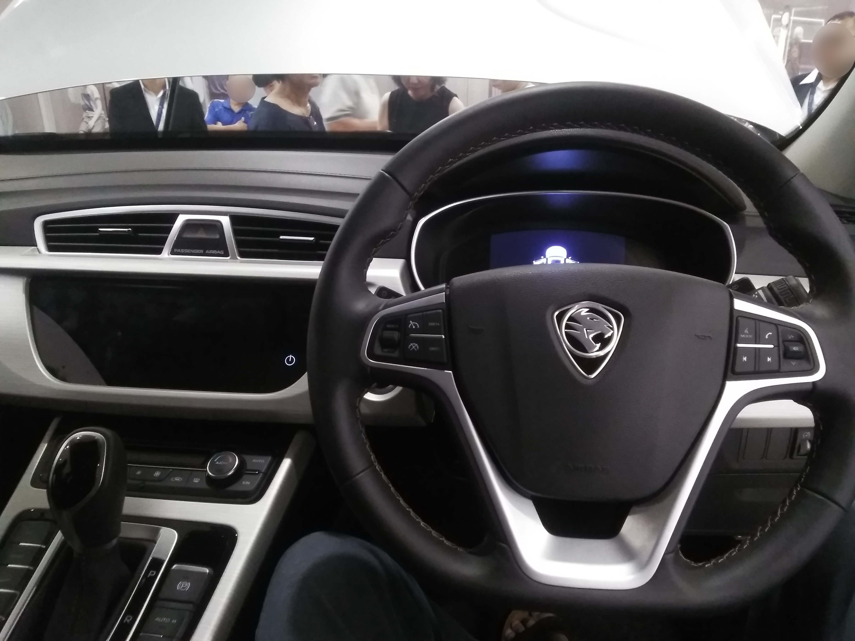 Taken at Queensbay Mall, Penang, Malaysia on the 6th of January 2019 of a 2018 Proton X70 Premium.